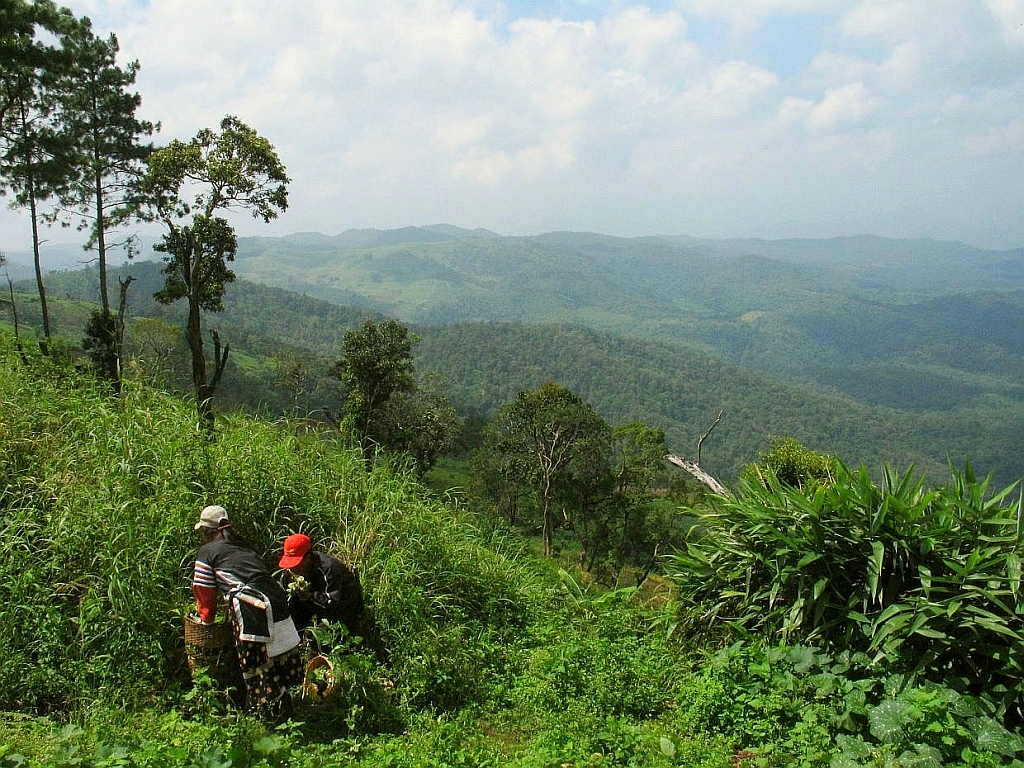 Lahu farmers in the mountains of Amphoe Omkoi in the province of Chiangmai